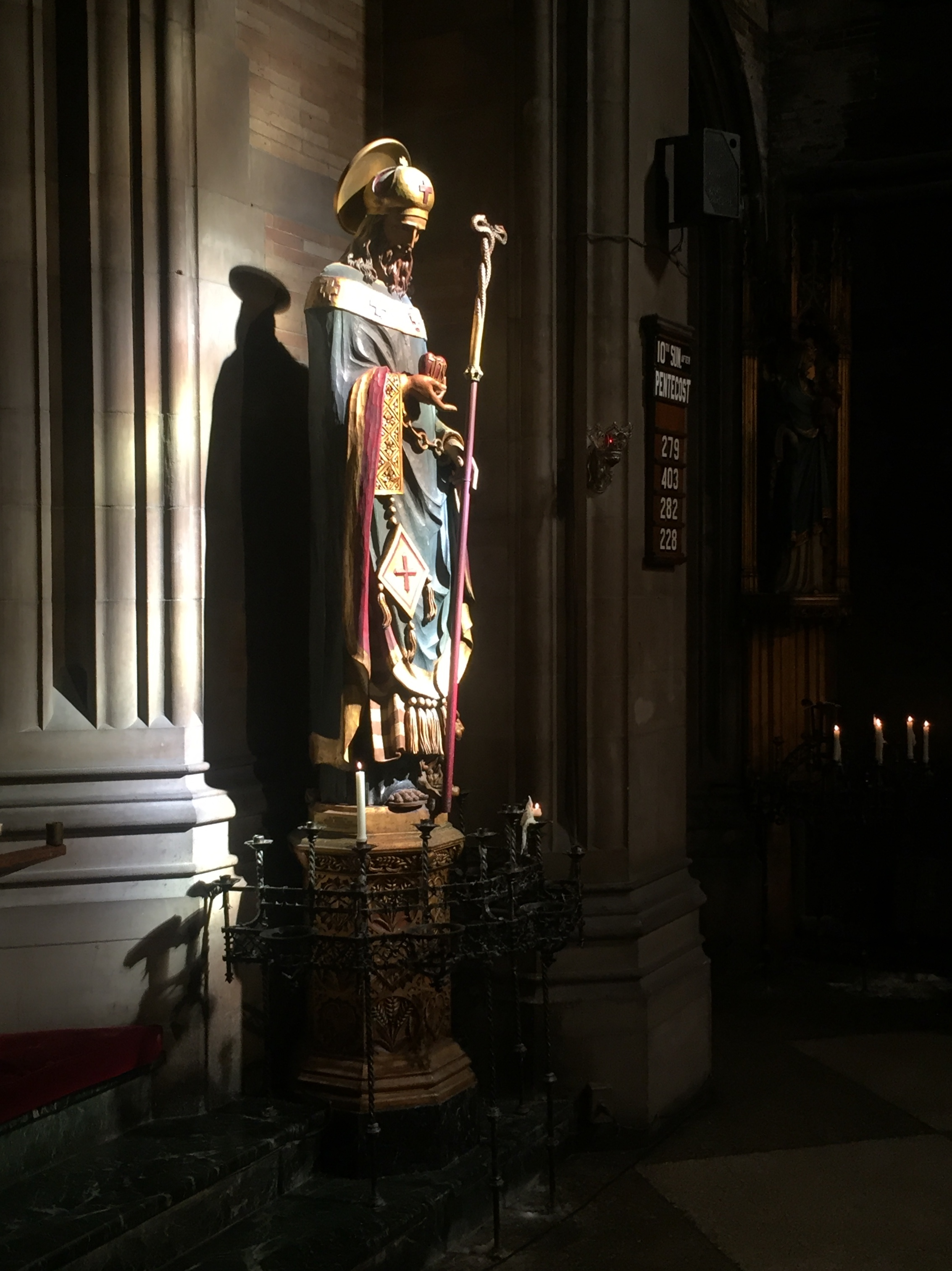 Shrine of St. Ignatius, designed by Ralph Adams Cram, 1928.